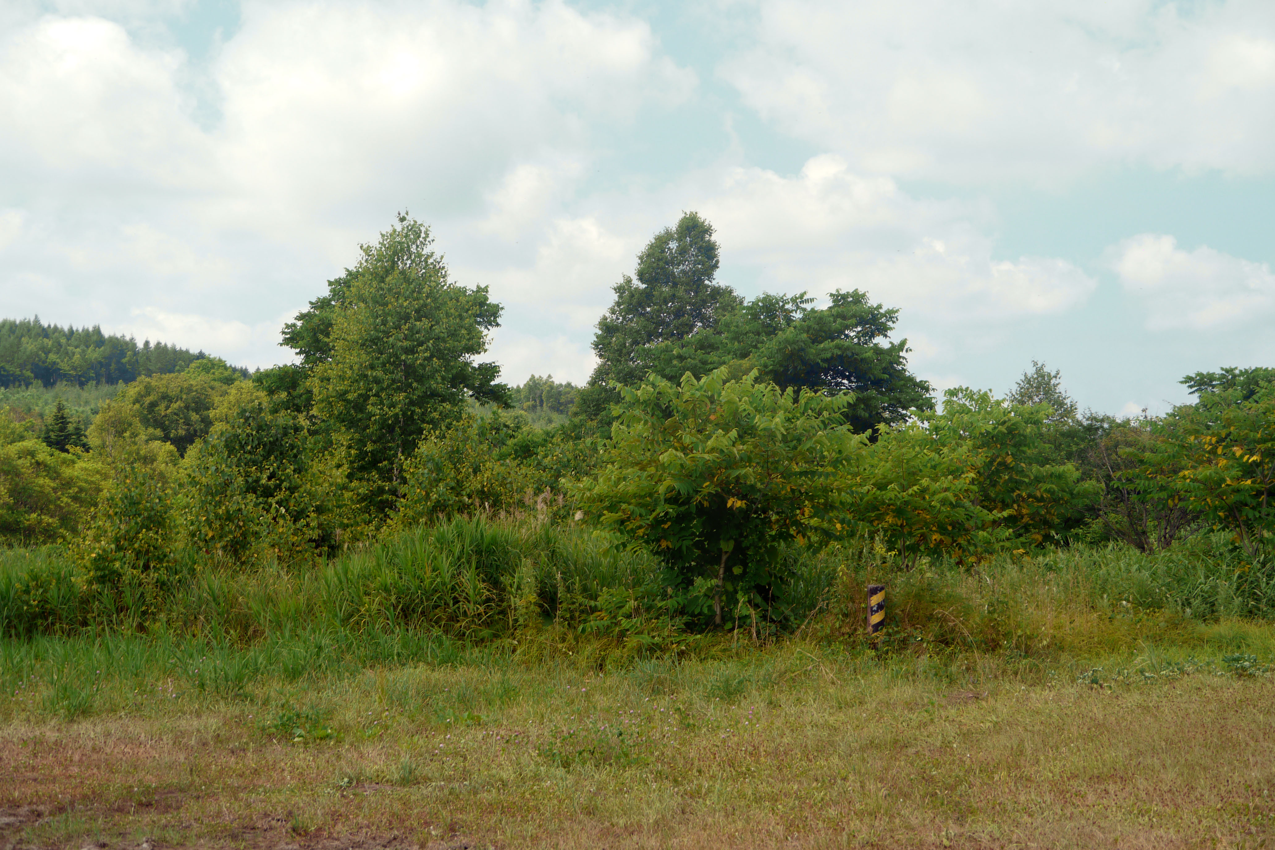 The former location of Teshioyayoi Station of the Shinmei Line in Hokkaido, Japan.